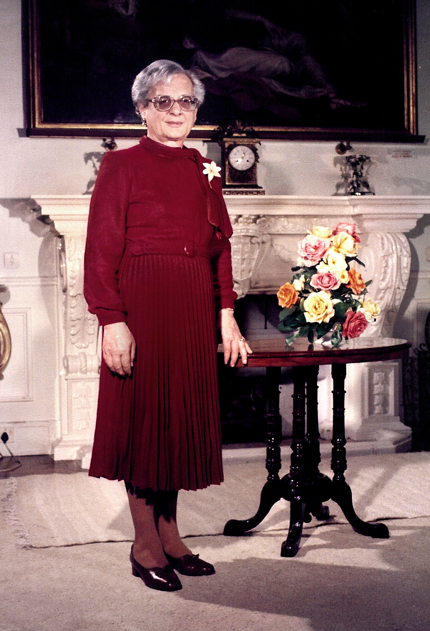 Portrait of Agatha Barbara provided by the government of Malta.